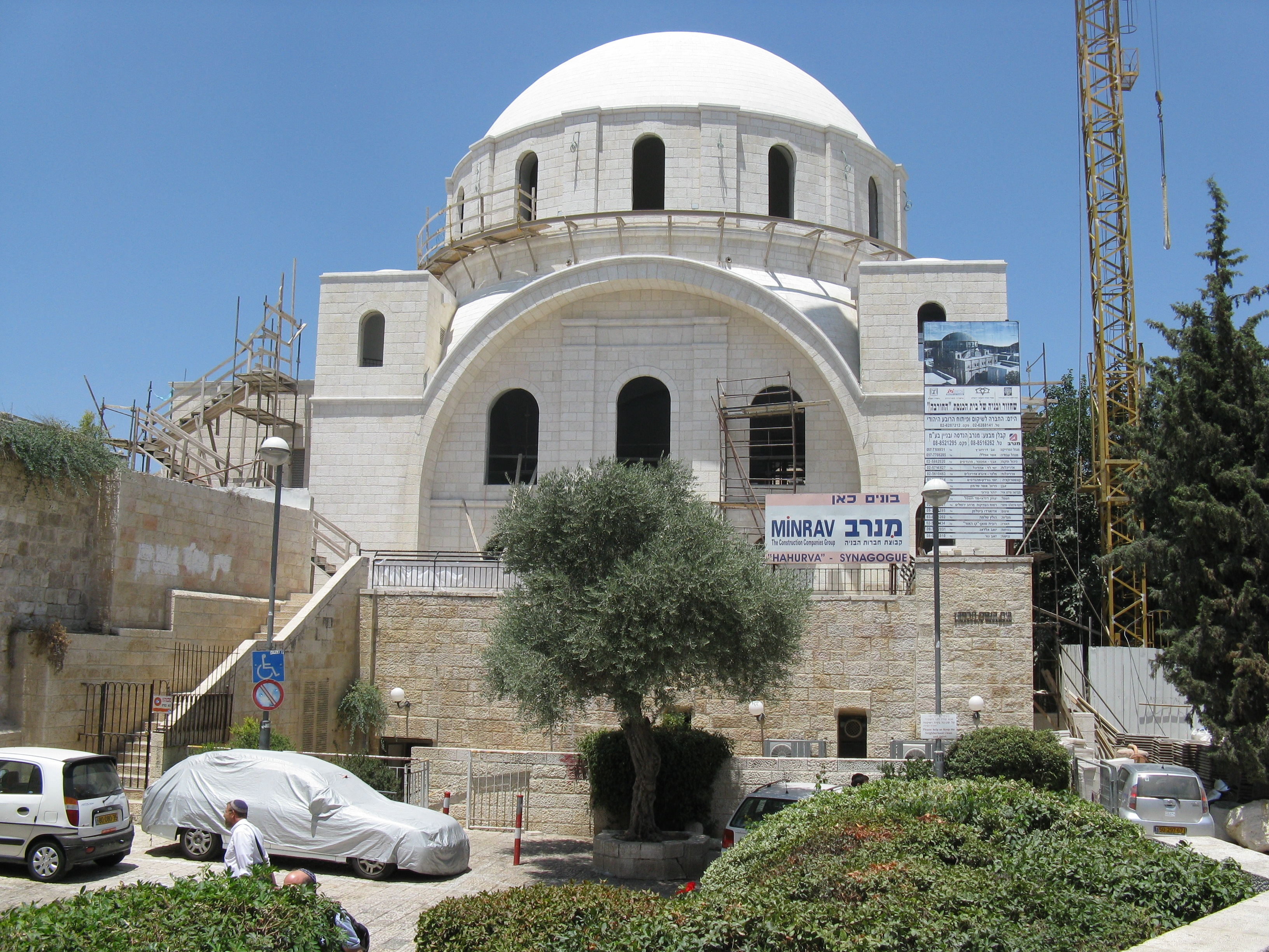 Reconstruction of the Hurva Synagogue in Jerusalem, Israel. July 2009.